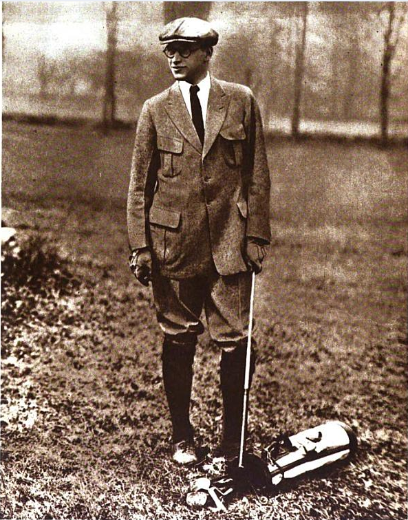 Photograph of Holworthy Hall (Harold Porter), American playwright and writer.